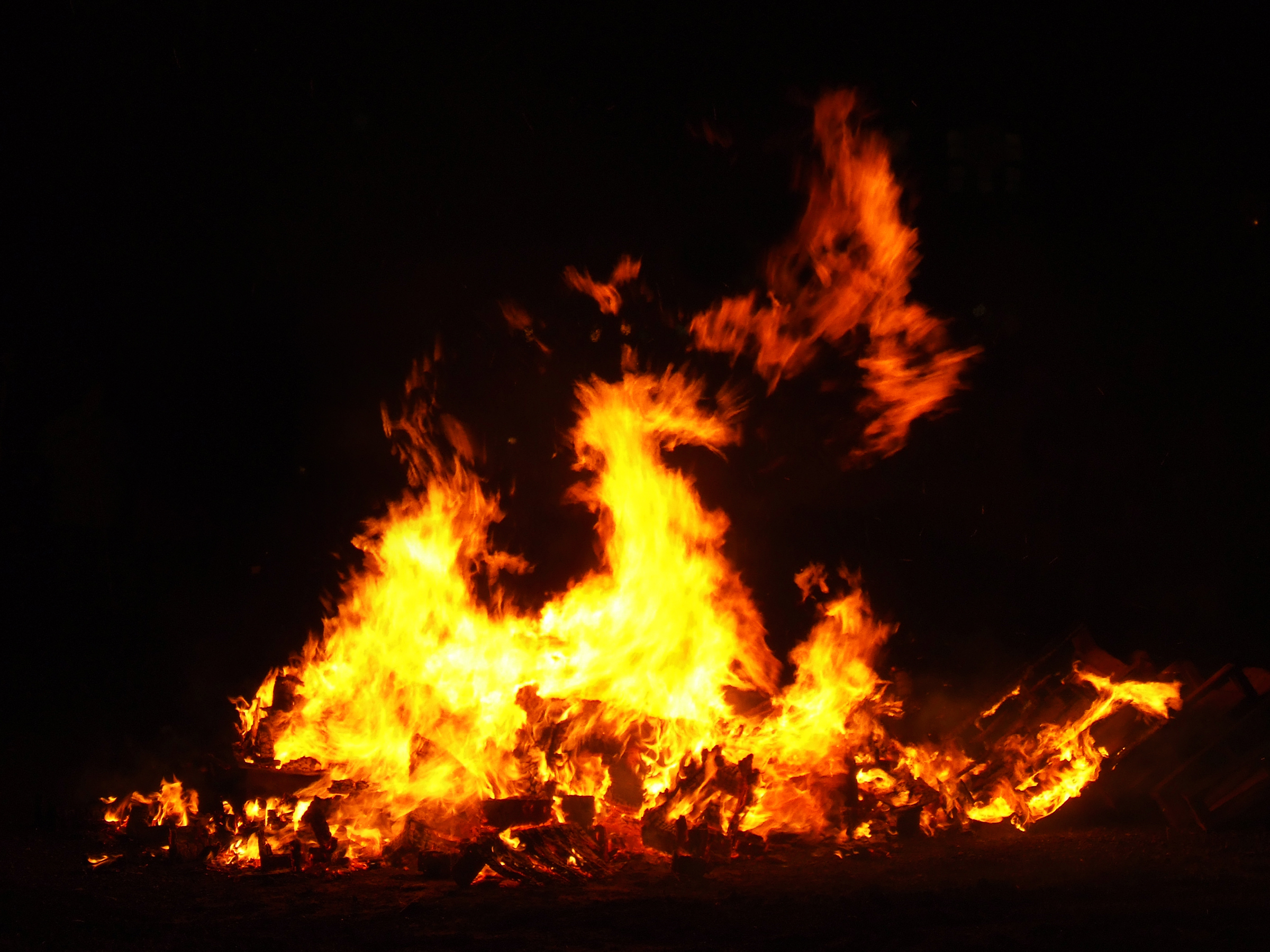 a typical campfire